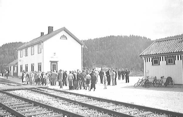 Birknes Station on the Sørland Line in Norway